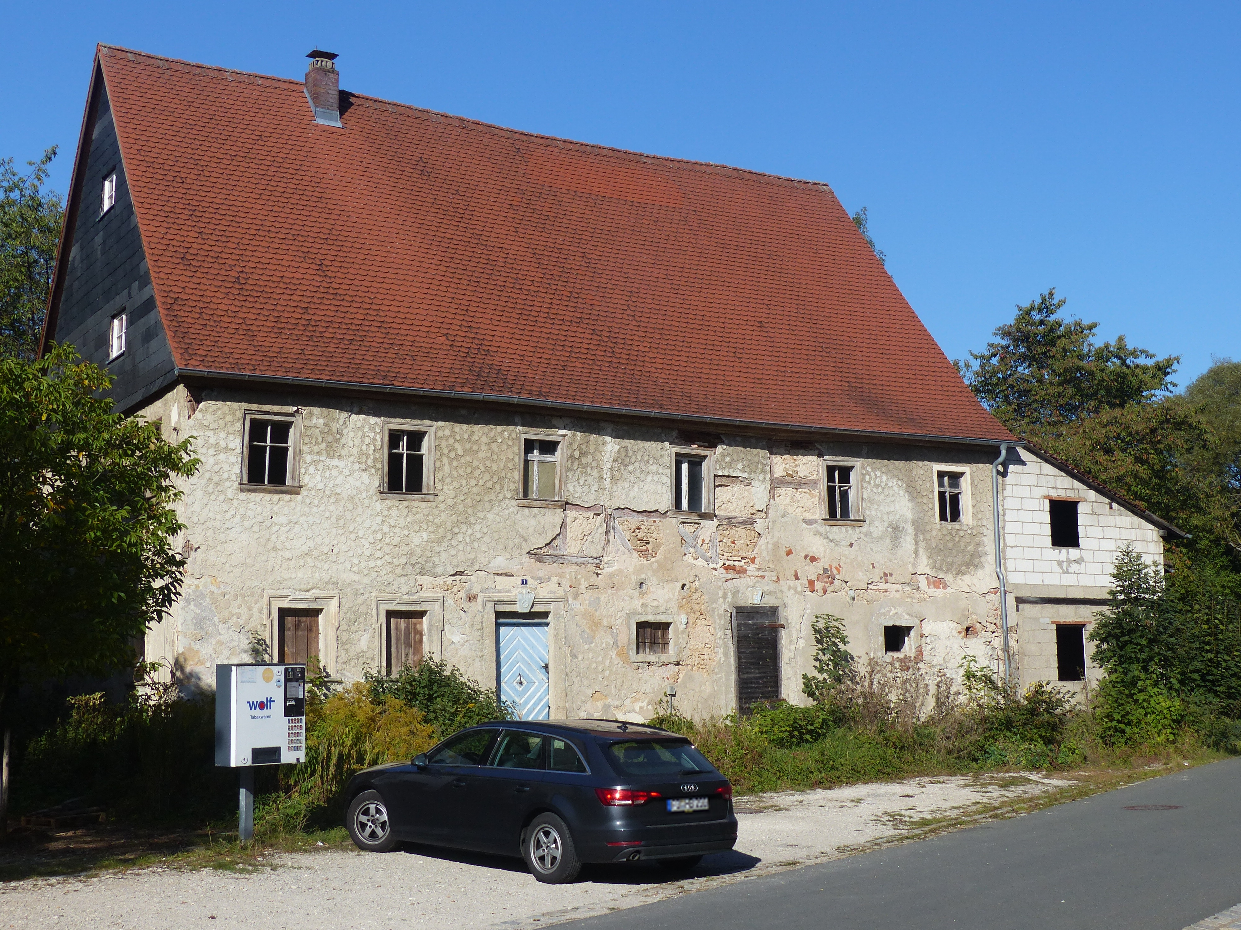 A former mill in the village Gasseldorf, a district of the town of Ebermannstadt.